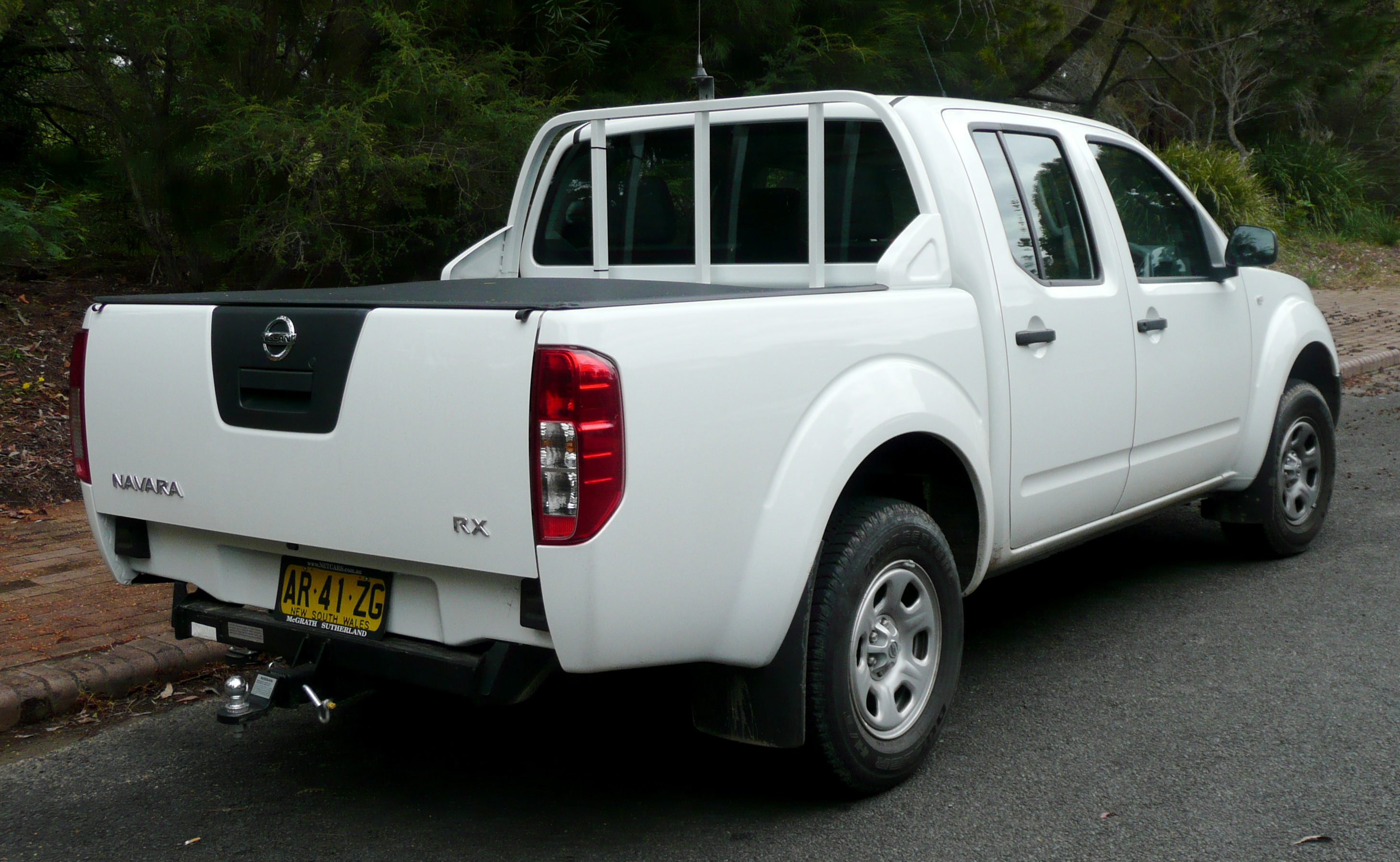 2005–2007 Nissan Navara (D40) RX 4-door utility. Photographed in Audley, New South Wales, Australia.